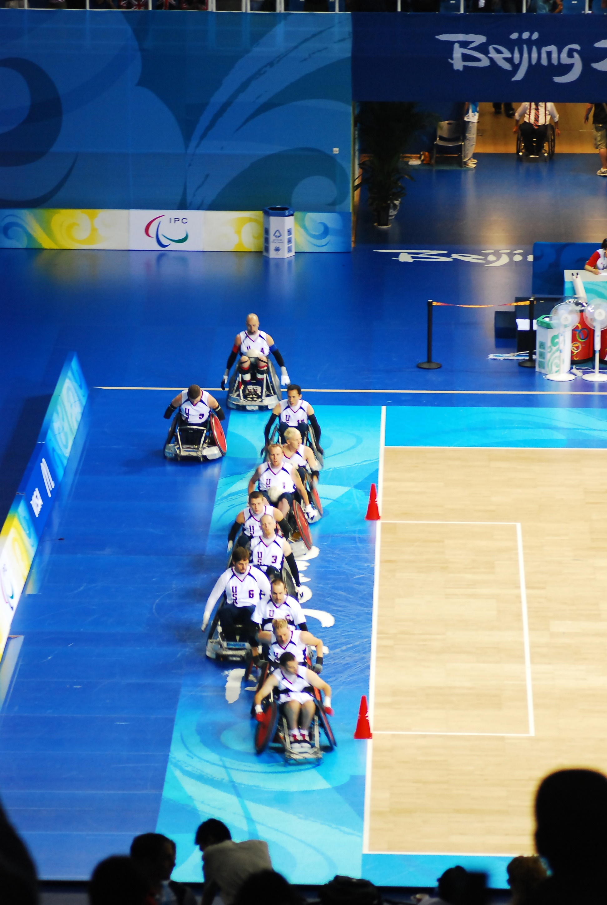 The United States national wheelchair rugby team at the 2008 Paralympic Summer Games in Beijing.